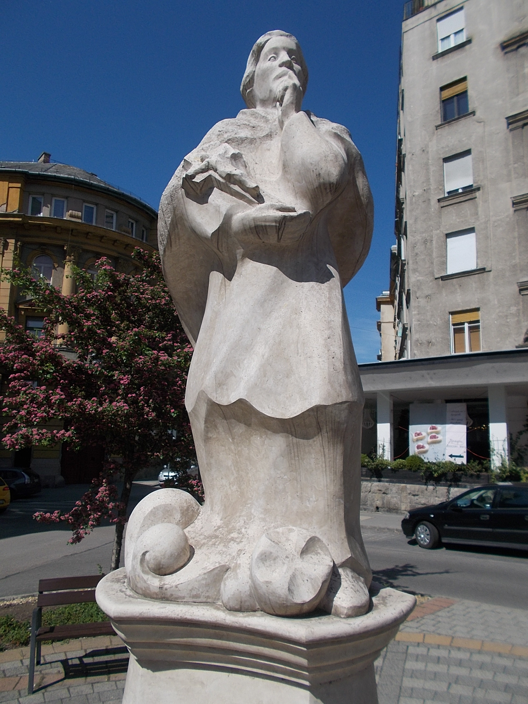 Saint John of Nepomuk by Sebestyén Markolt (2011 limestone statues). Since 1840s stand here a John of Nepomuk statue. Firts destroyed in 1893 after in 1921 and the last unbuilded in the end of 1940s. - Bimbó street, Országút neighborhood, 2nd district of Budapest, Hungary